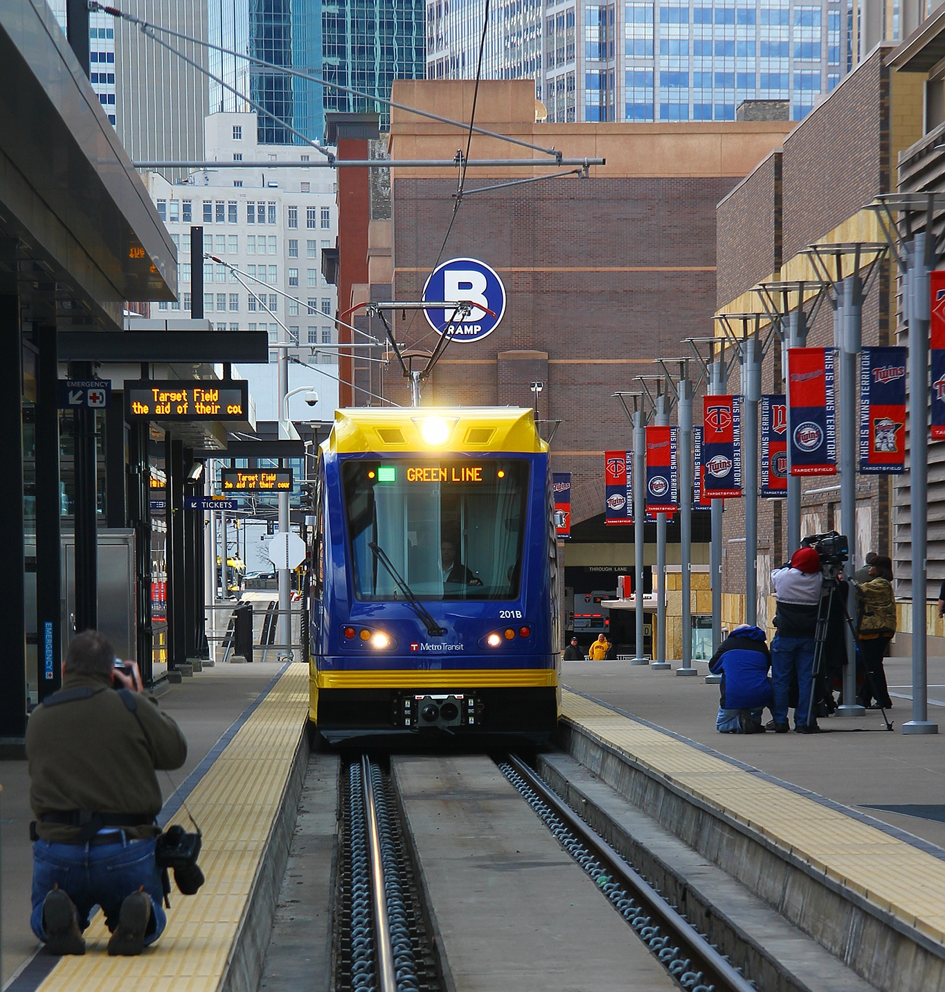 Metro Transit's first new Siemens S70, #201, arrives at an unveiling to the news media at Target Field station in Minneapolis on October 10, 2012. The vehicle had been delivered about a month earlier.